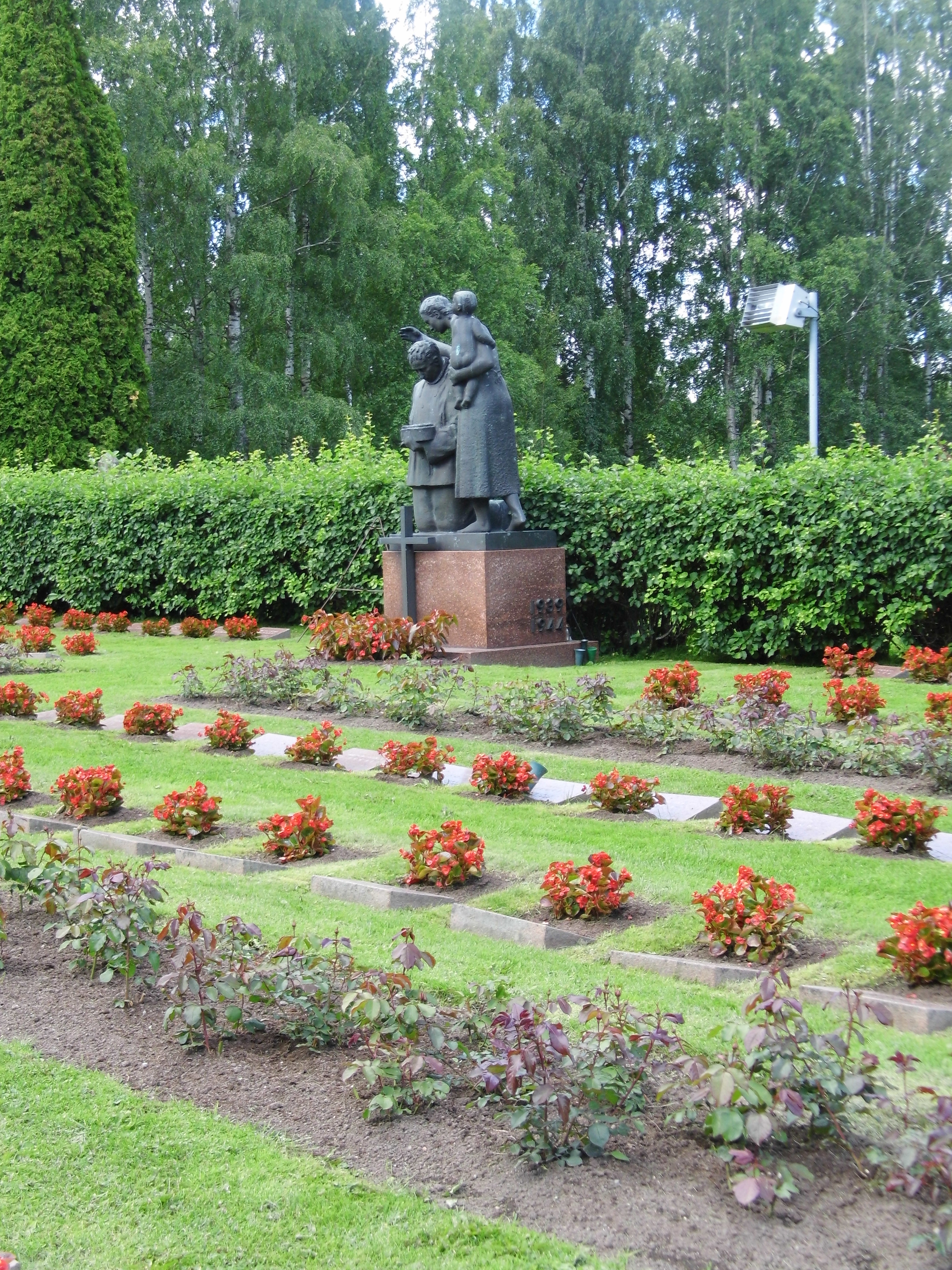 Military cemetary at church in Ilmajoki, Finland